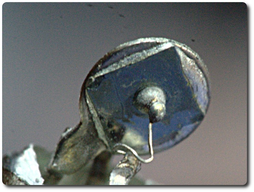 Inside Polish TG5 germanium transistor.